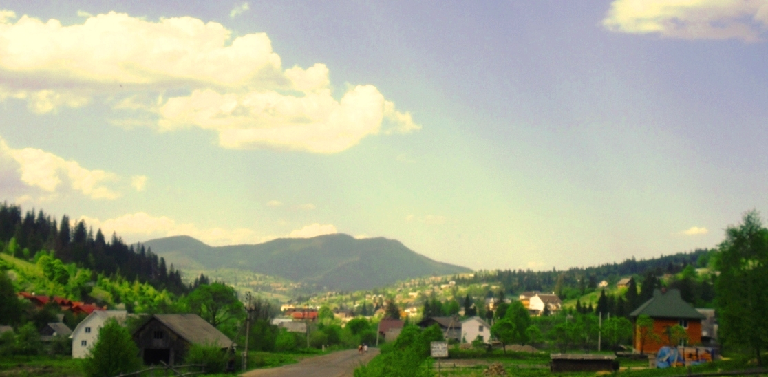 Urban village Slavske (Skole Raion). Southern slope of the Trostyan Mountain.